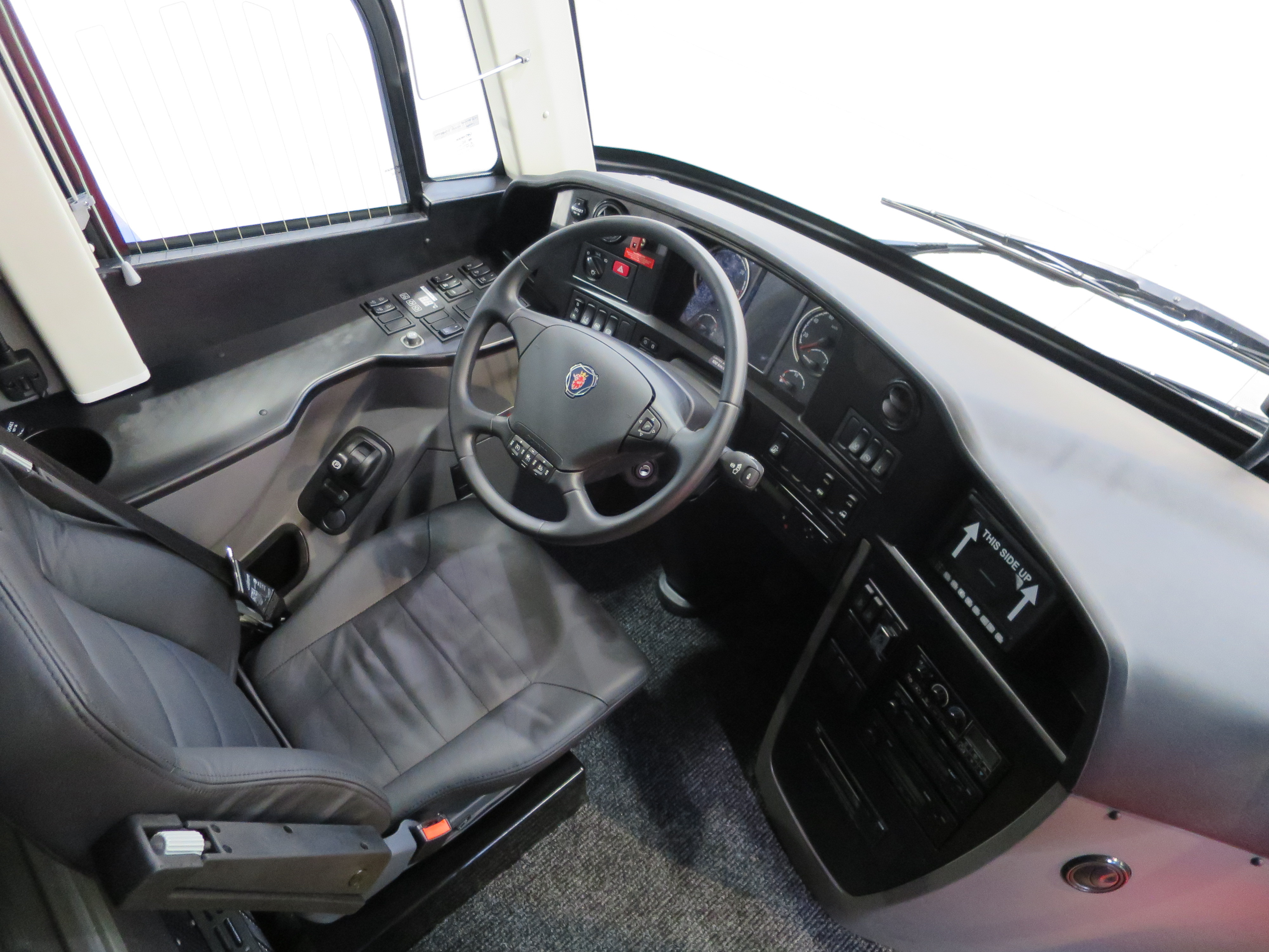 The making of this document was supported by Wikimedia Polska Association, within Wikigrant no. WG 2016-45. Scania Touring Super PKS